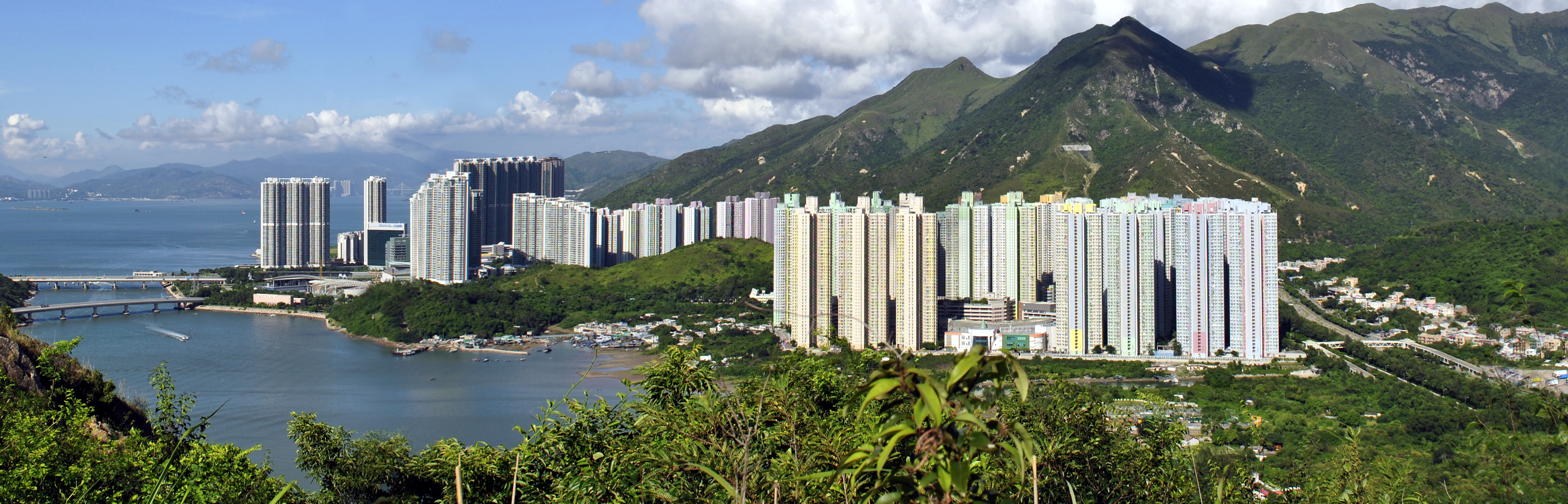 Tung Chung Yat Tung Estate Panorama